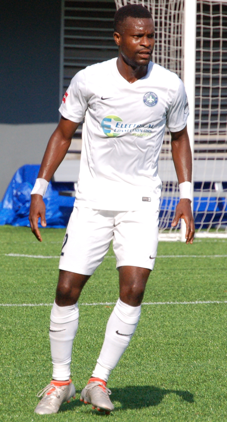 Richard Dixon Taken during a USL regular season match between FC Cincinnati and Saint Louis FC at Nippert Stadium in Cincinnati, USA on September 5, 2016.